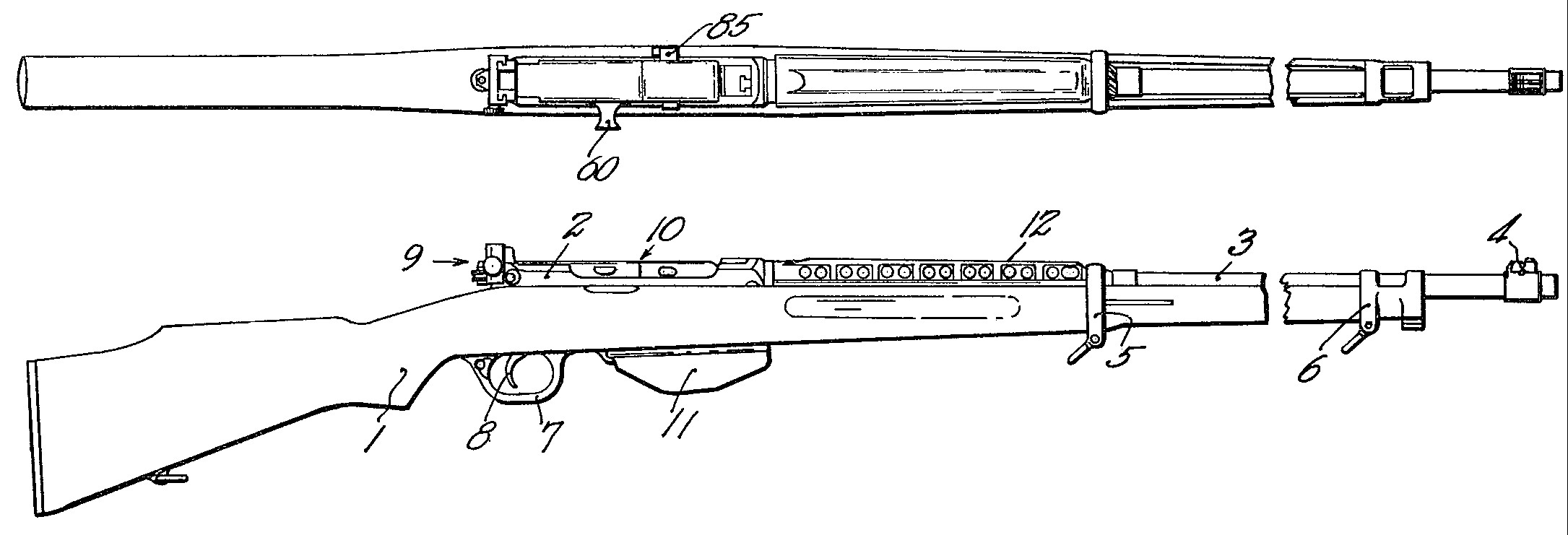 Pedersen rifle image from front page of patent.